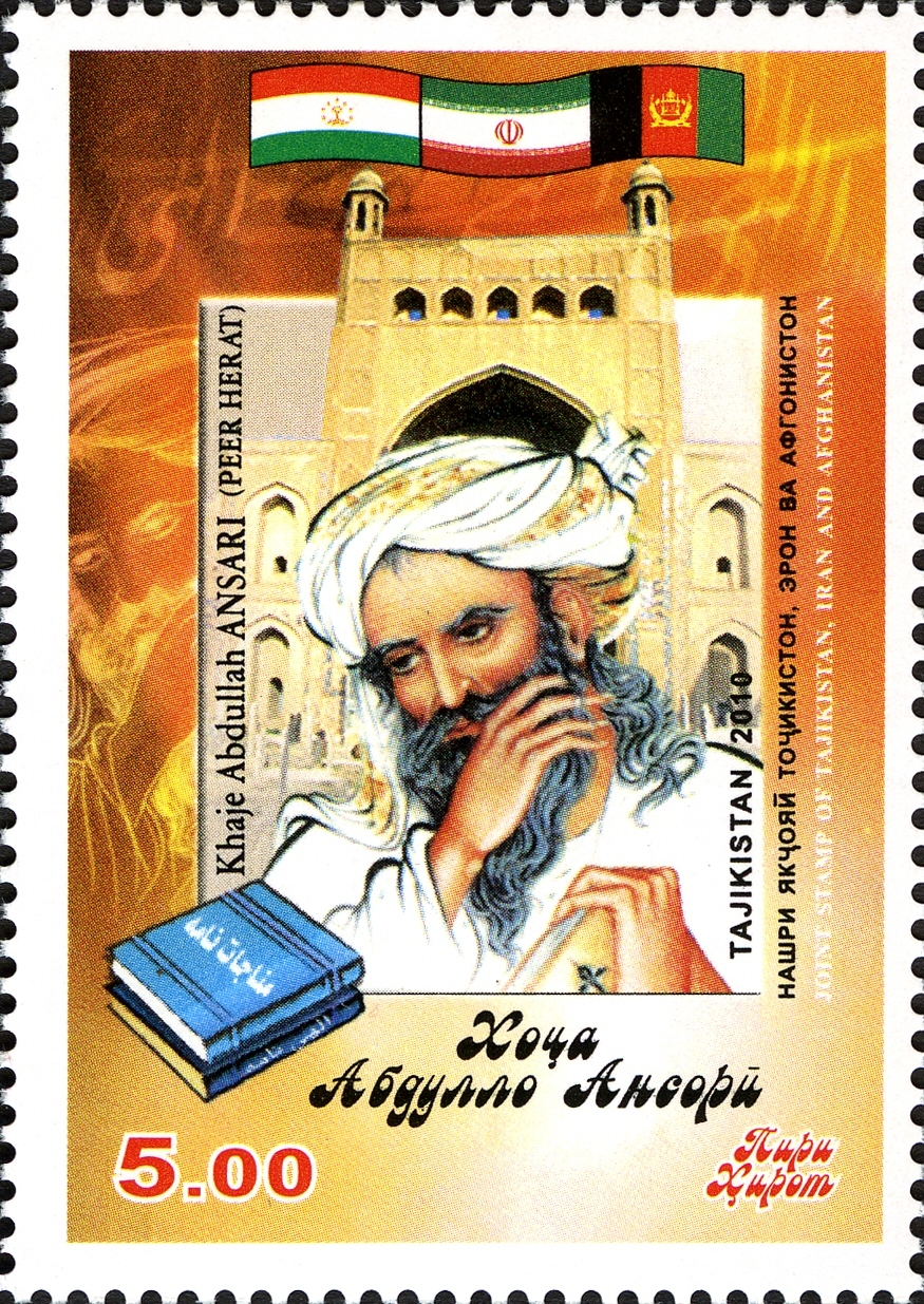 Stamps of Tajikistan, 2010